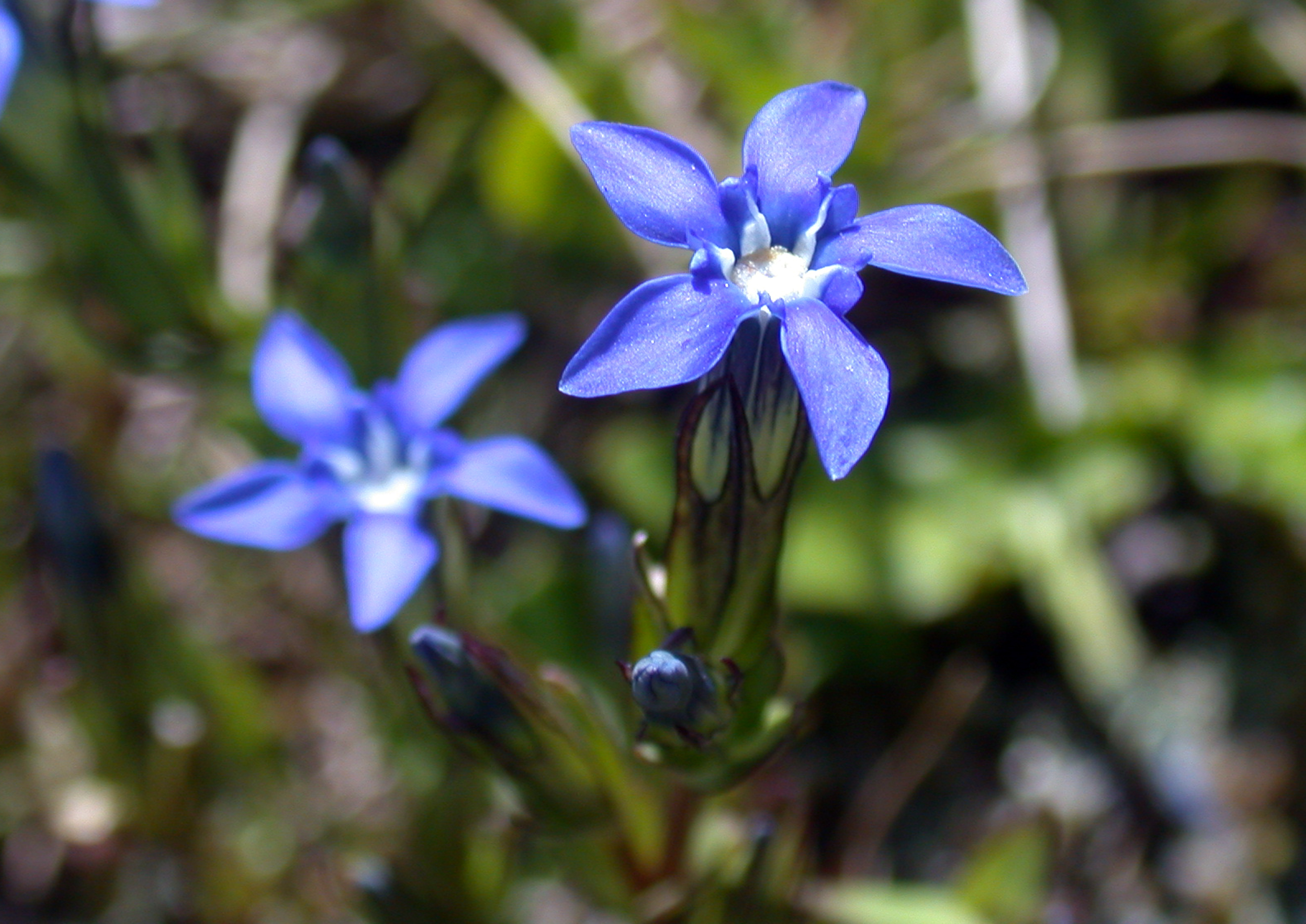 Gentiana nivalis (Gentianaceae); Canton of Valais, Switzerland